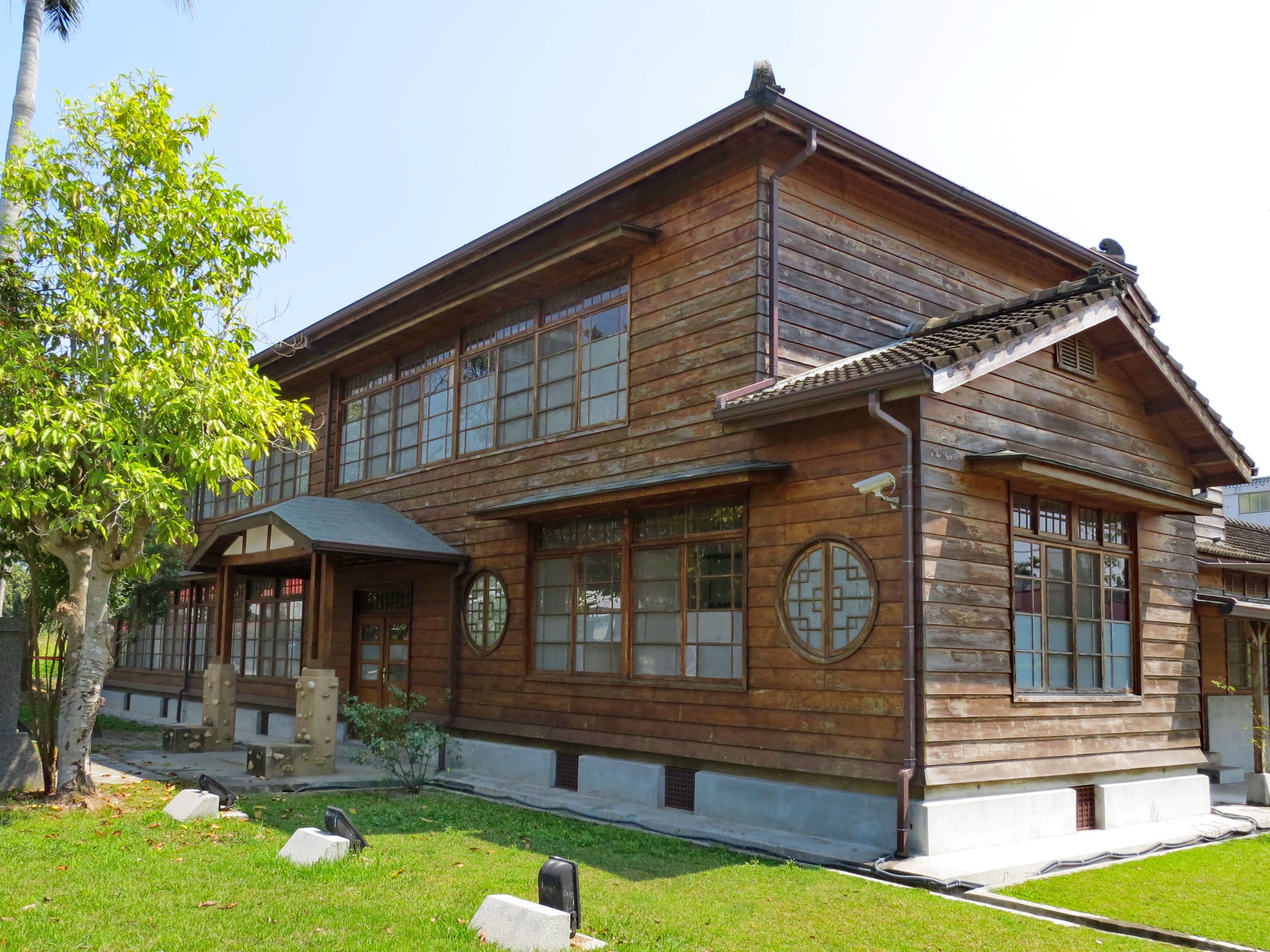 The north west corner of The Japanese Style Hospitality House of the Former Radio Taiwan International Minhsiung Broadcasting Bureau.